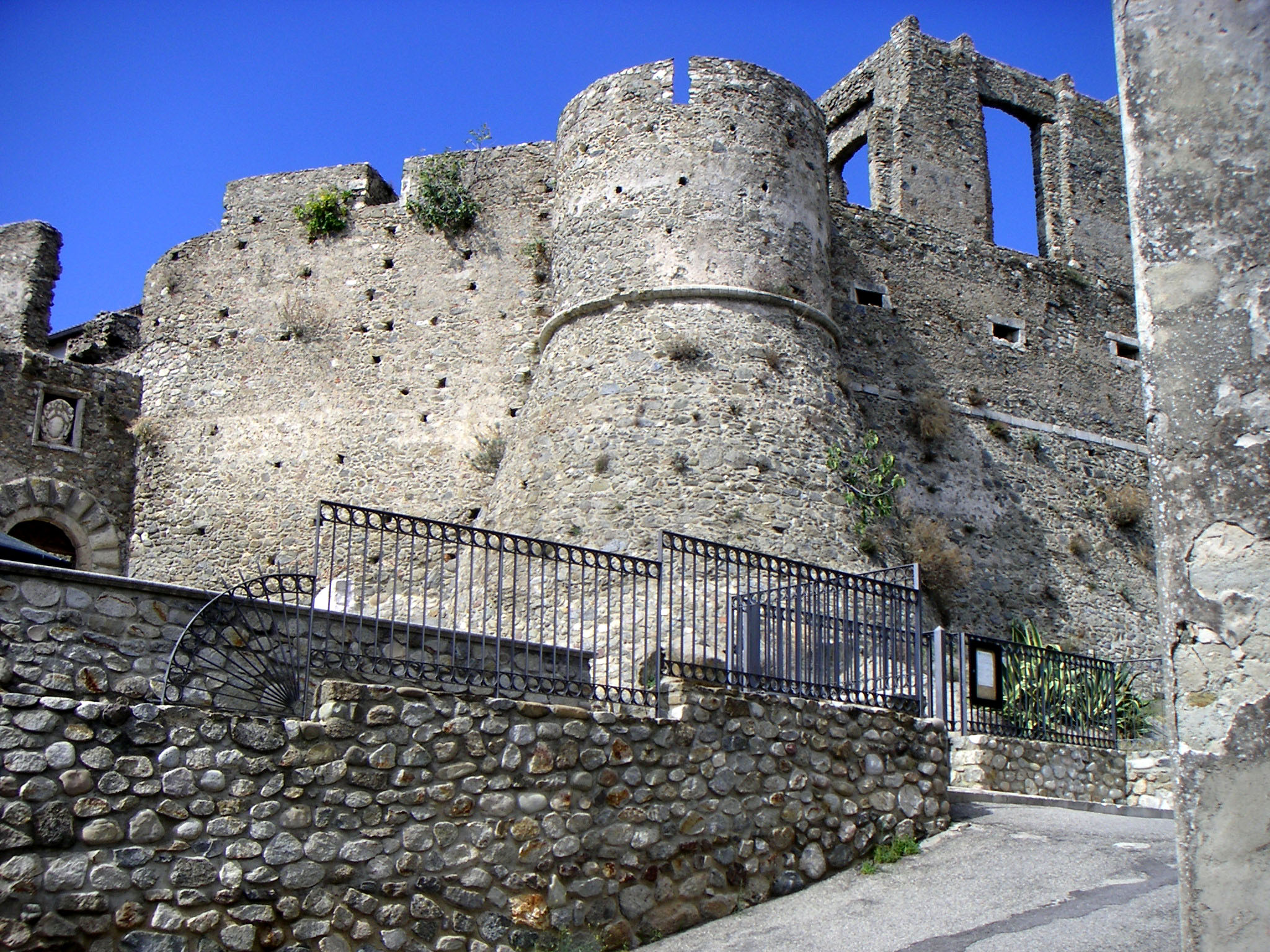 The Norman Castle of Sqillace (Italy)